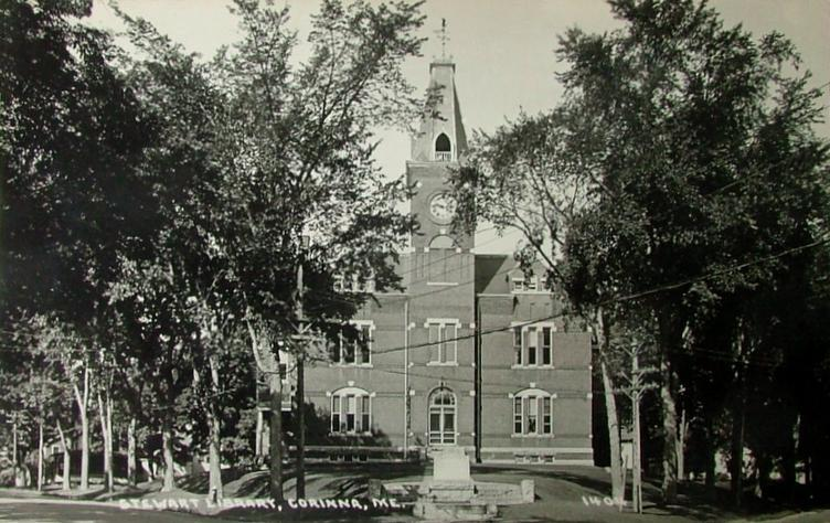 Stewart Free Library, Corinna, Maine. Designed by Minneapolis architect William Harrison Grimshaw, it was built in 1898.